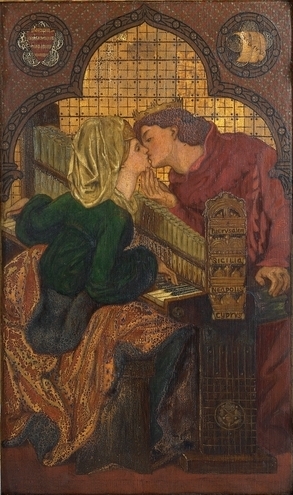 This is the "Music" panel in the John Pollard Seddon's "King René's Honeymoon Cabinet" (see references).